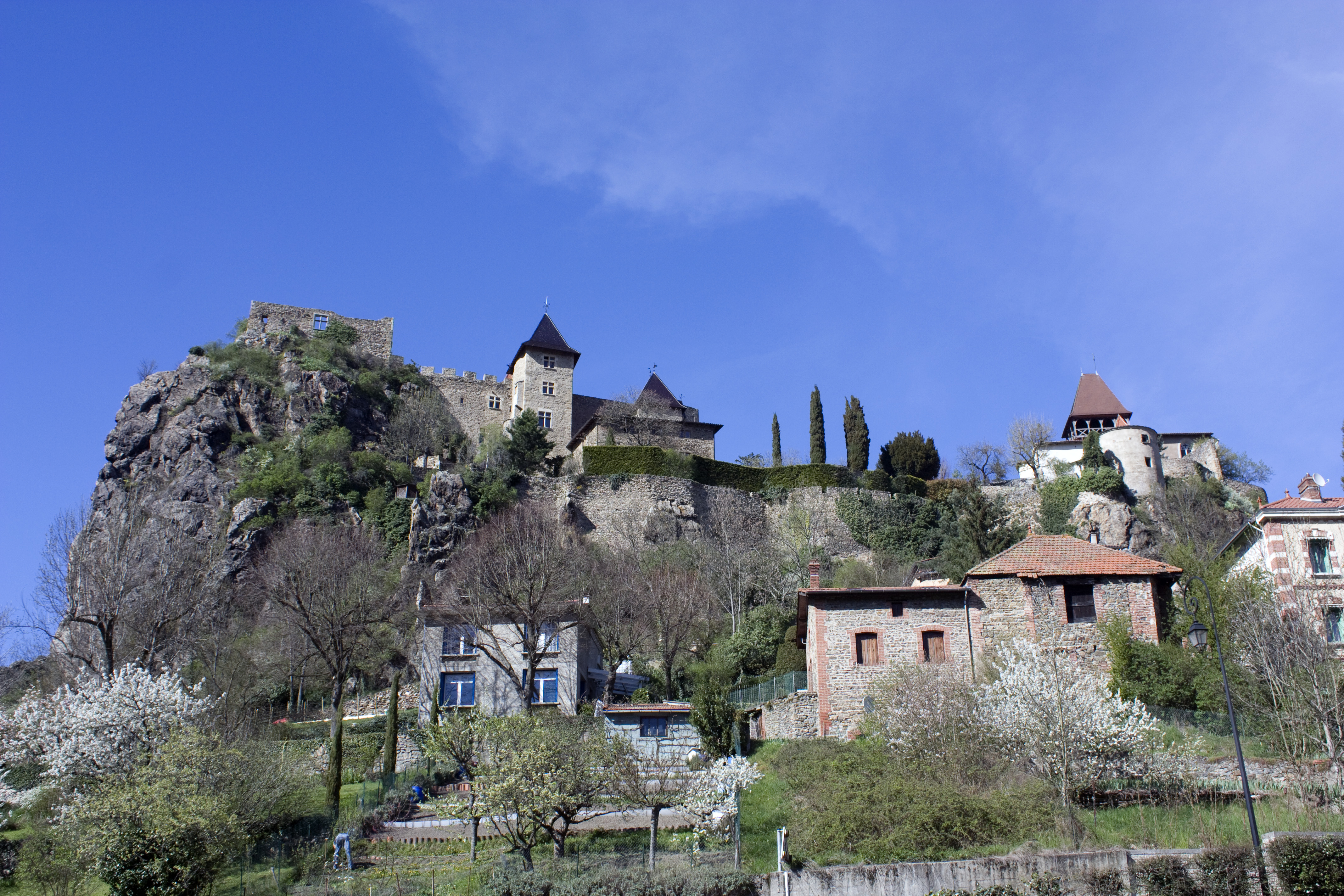 The heights of the village of Saint Paul en Cornillon dominated by its medieval castle.